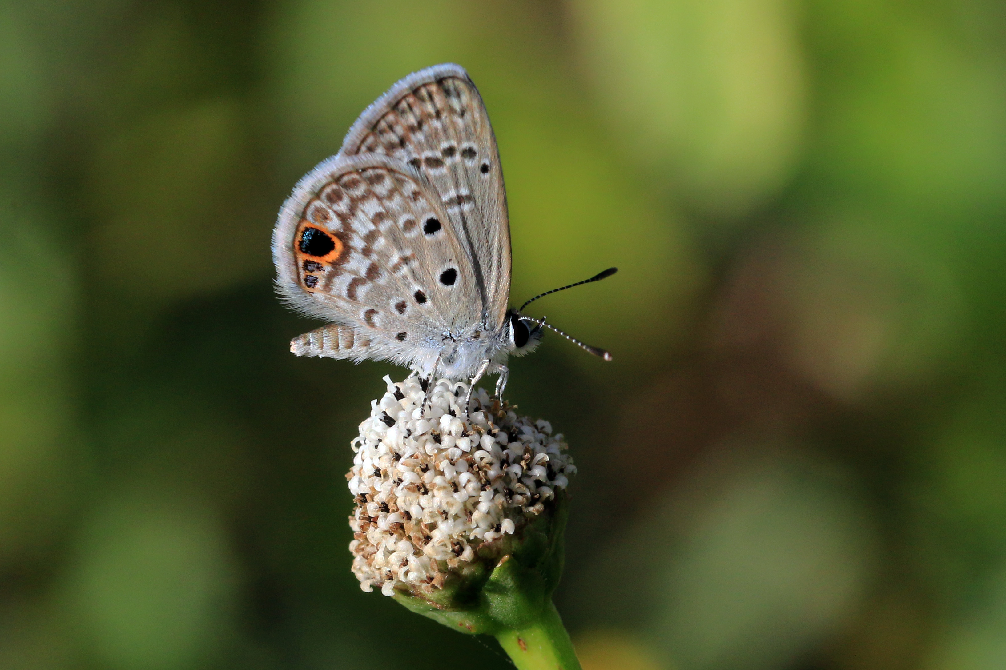 Hanno blue (Hemiargus hanno filenus), Grand Cayman